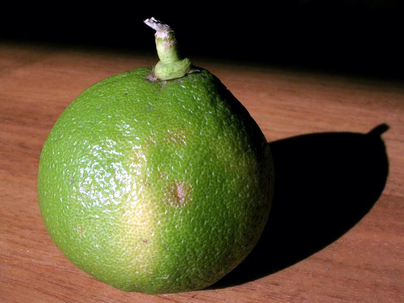 A bergamot orange from Calabria, Italy. Photo taken in Europe, with a Nikon E3700 digital camera.